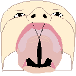 cleft palate (hard and soft) seen from bottom